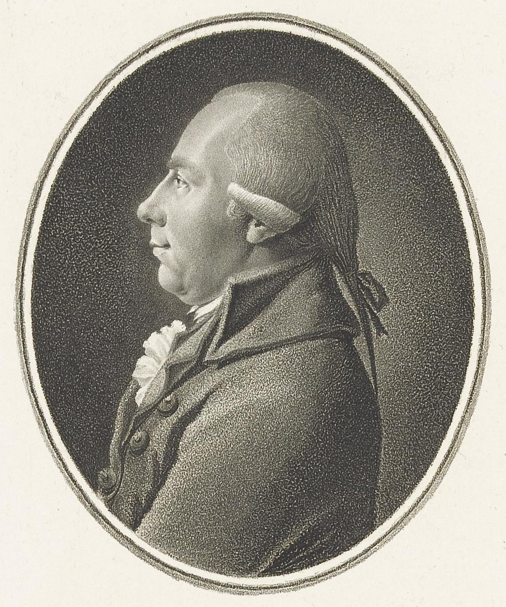 Depicted person: Johann Christoph Mainberger